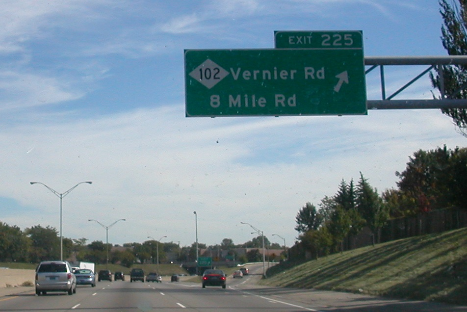 8 Mile Road Exit on I-94 in Harper Woods, Wayne County, Michigan. Picture taken by Matt314 September 2004.